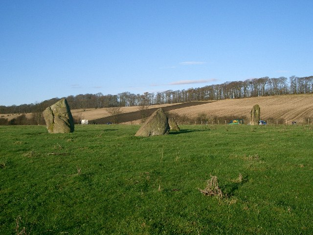 Tulliyies Standing Stones, above Torryburn